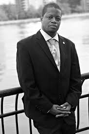 Hon. Ronald Savage at a Press Release